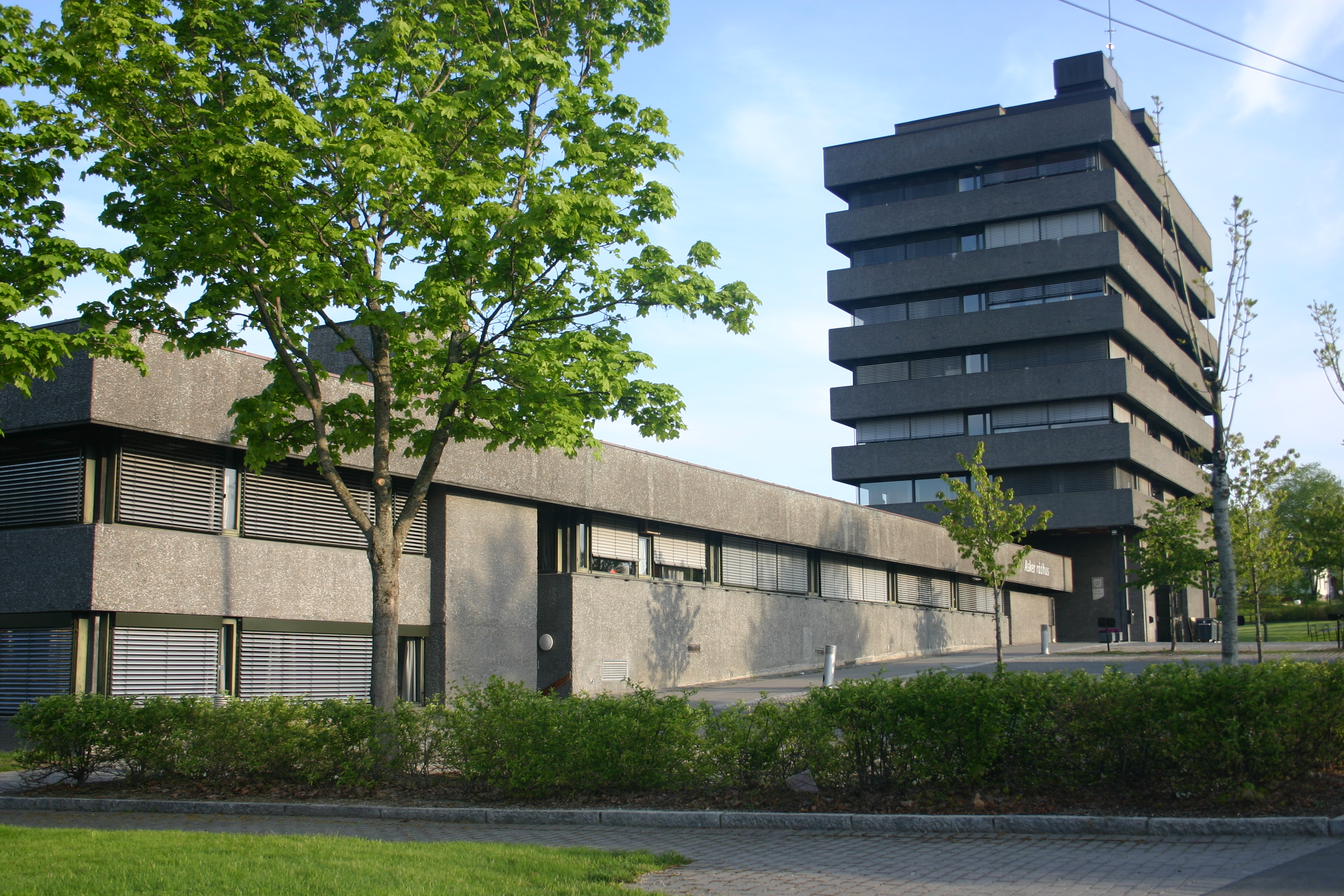 Asker cityhall - east side - main entrance, Asker, Norway